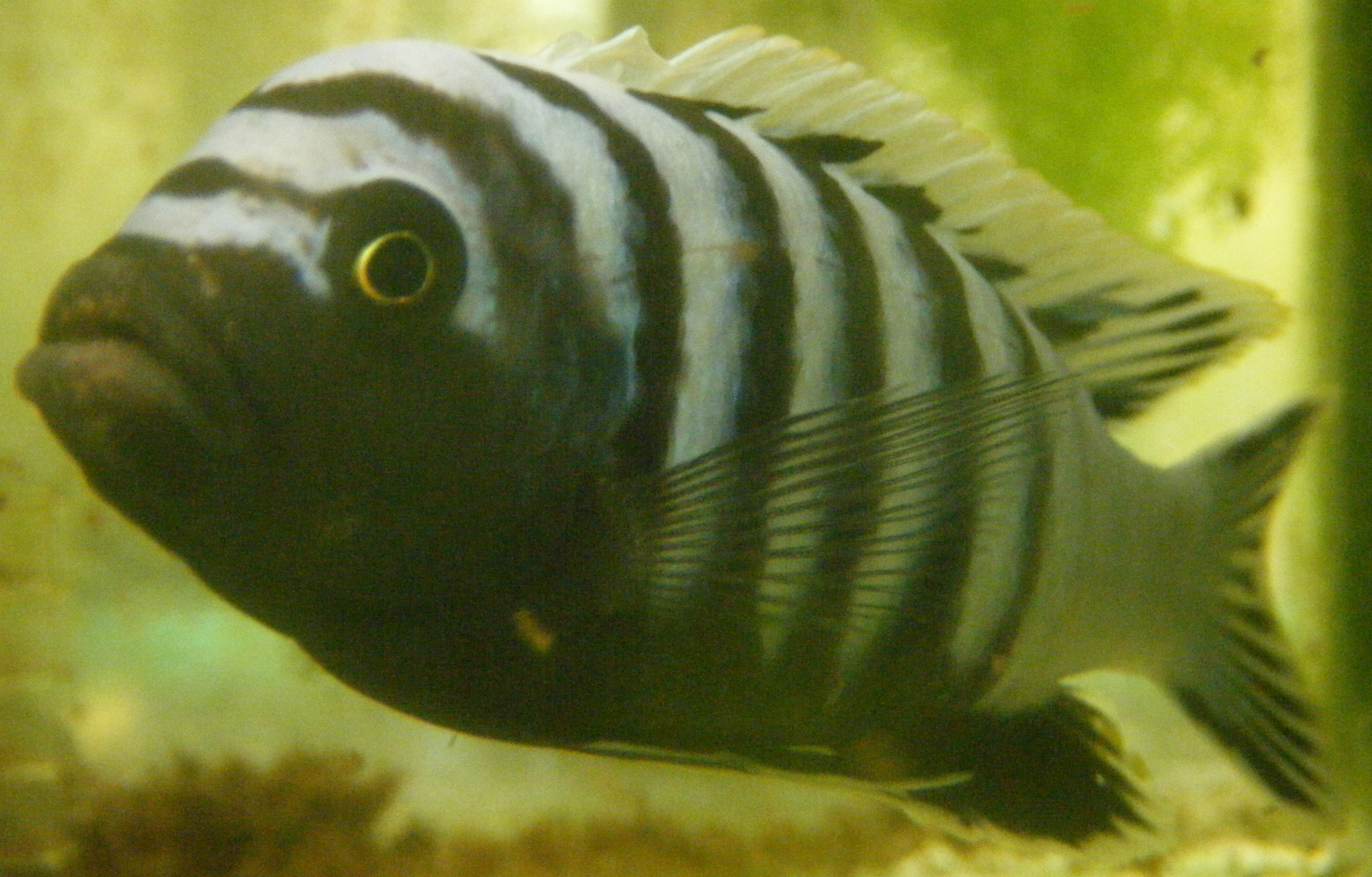 Cynotilapia afra, wild caught male (broken dorsal stripe) from Thumbi West Island